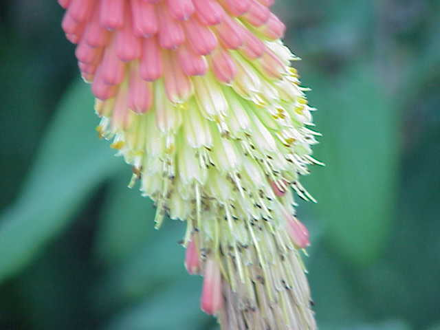 Species: Kniphofia x Family: Liliaceae Image No. 1